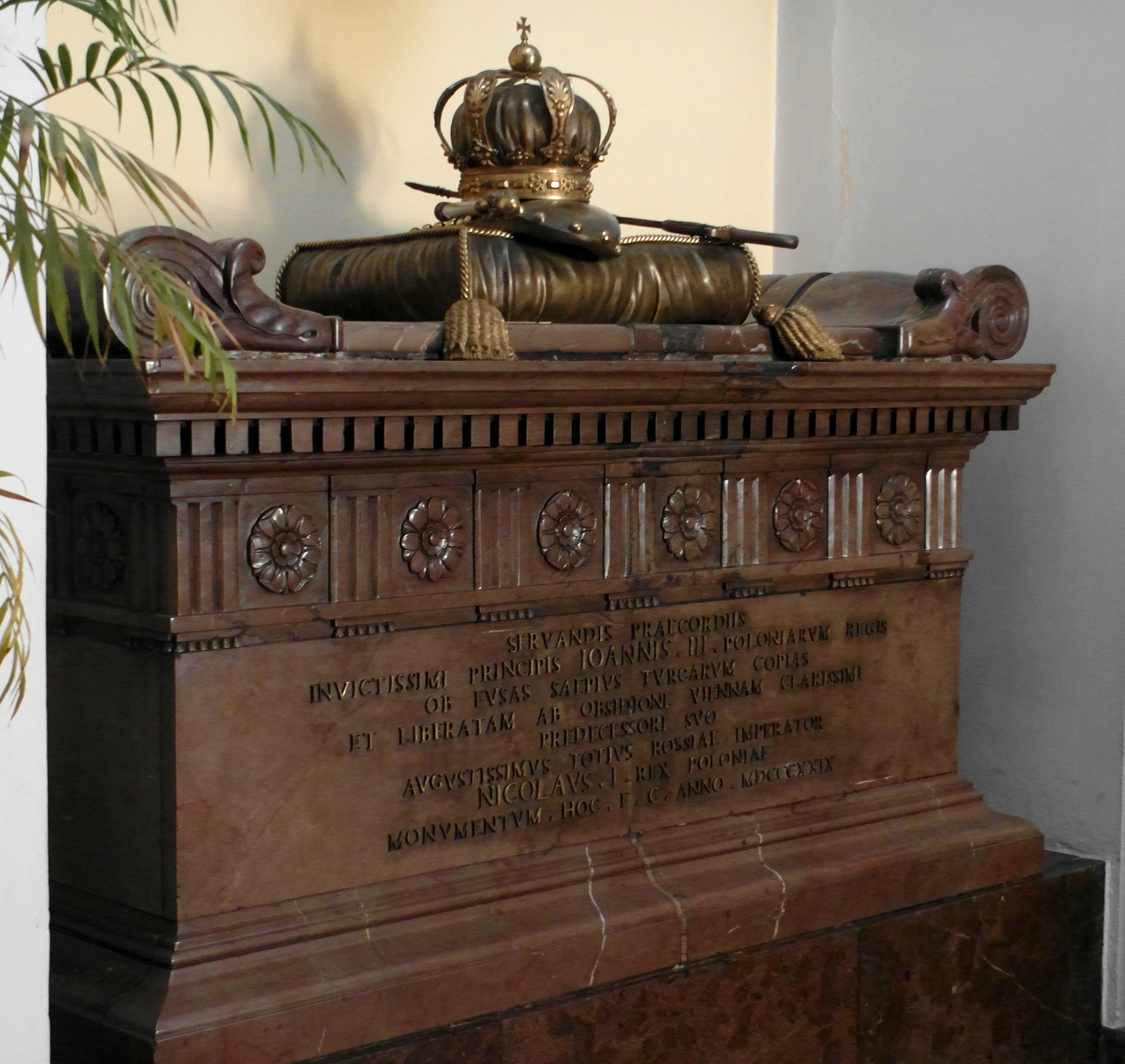 Sarcophagus with the heart of Jan III Sobieski in the Capuchin church in Warsaw